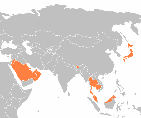 Asian monarchies